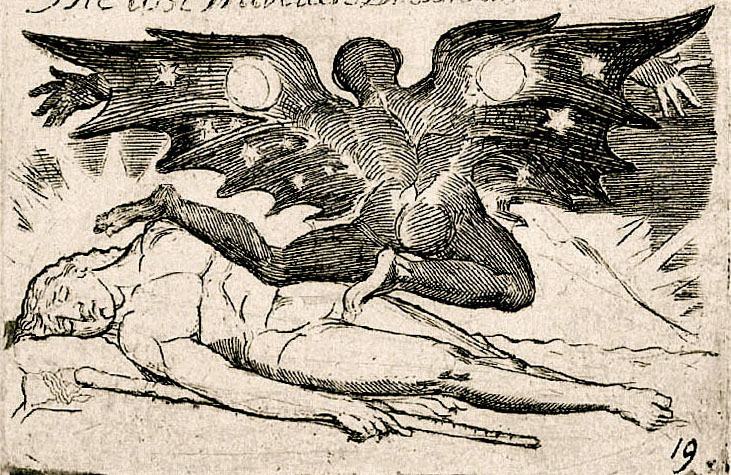 Blake's To the Accuser, from The Gates of Paradise, with the text cropped out.